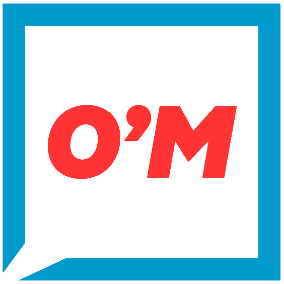 Logo for Fmr. Gov. Martin O'Malley's 2016 Presidential Campaign